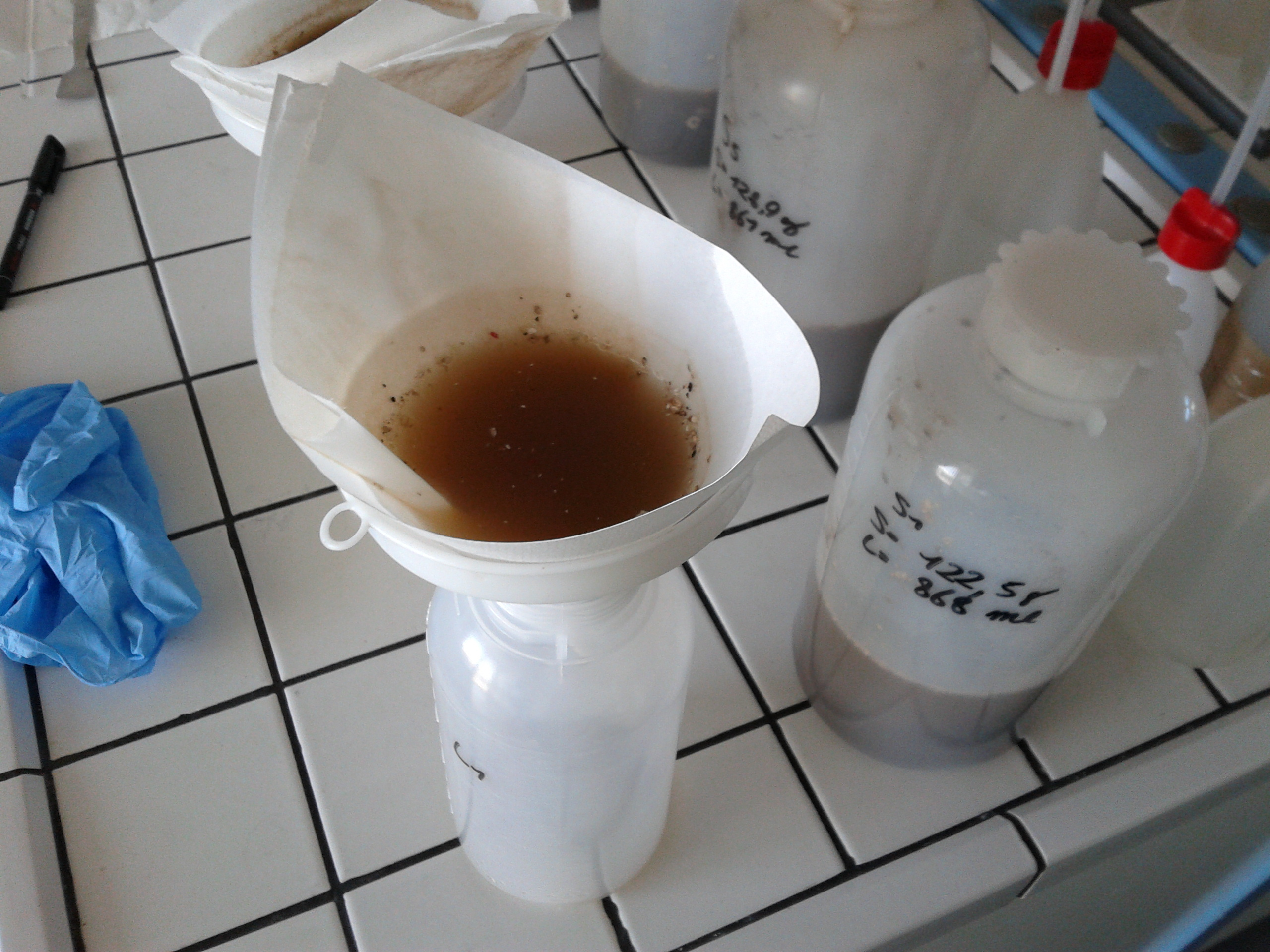 Raw Filtration of an eluate, chemical analysis